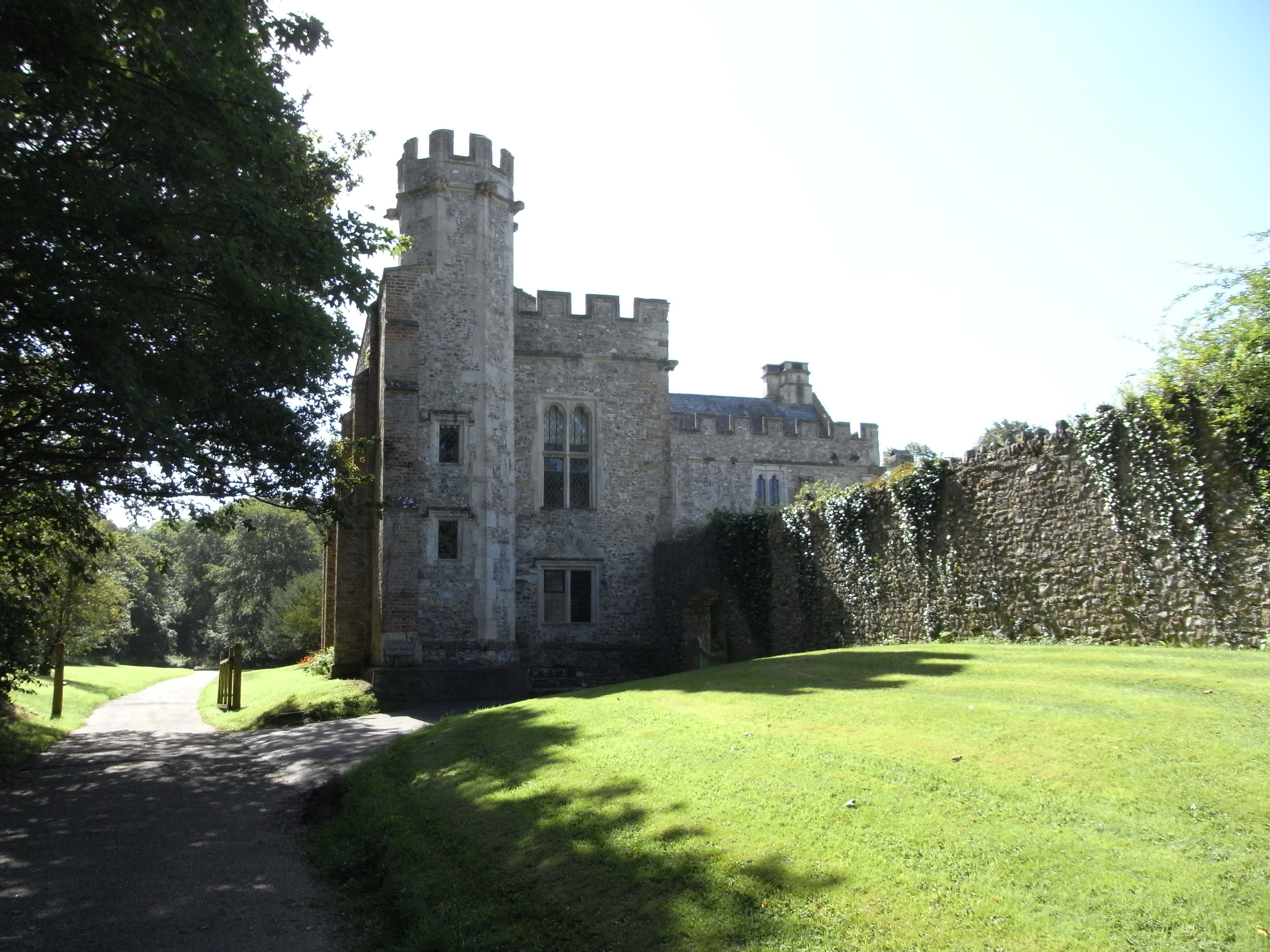 Old Shute House, Devon, viewed from west, showing the addition (to the left with turret, west end facing viewer) built by Sir William Pole the Antiquary (1561-1635) circa 1587-1600. The range behind to the right running perpendicular, i.e. to the south, is the original great hall of 1380. (Per Bridie, M.F., Thye Story of Shute, Axminster, 1955)